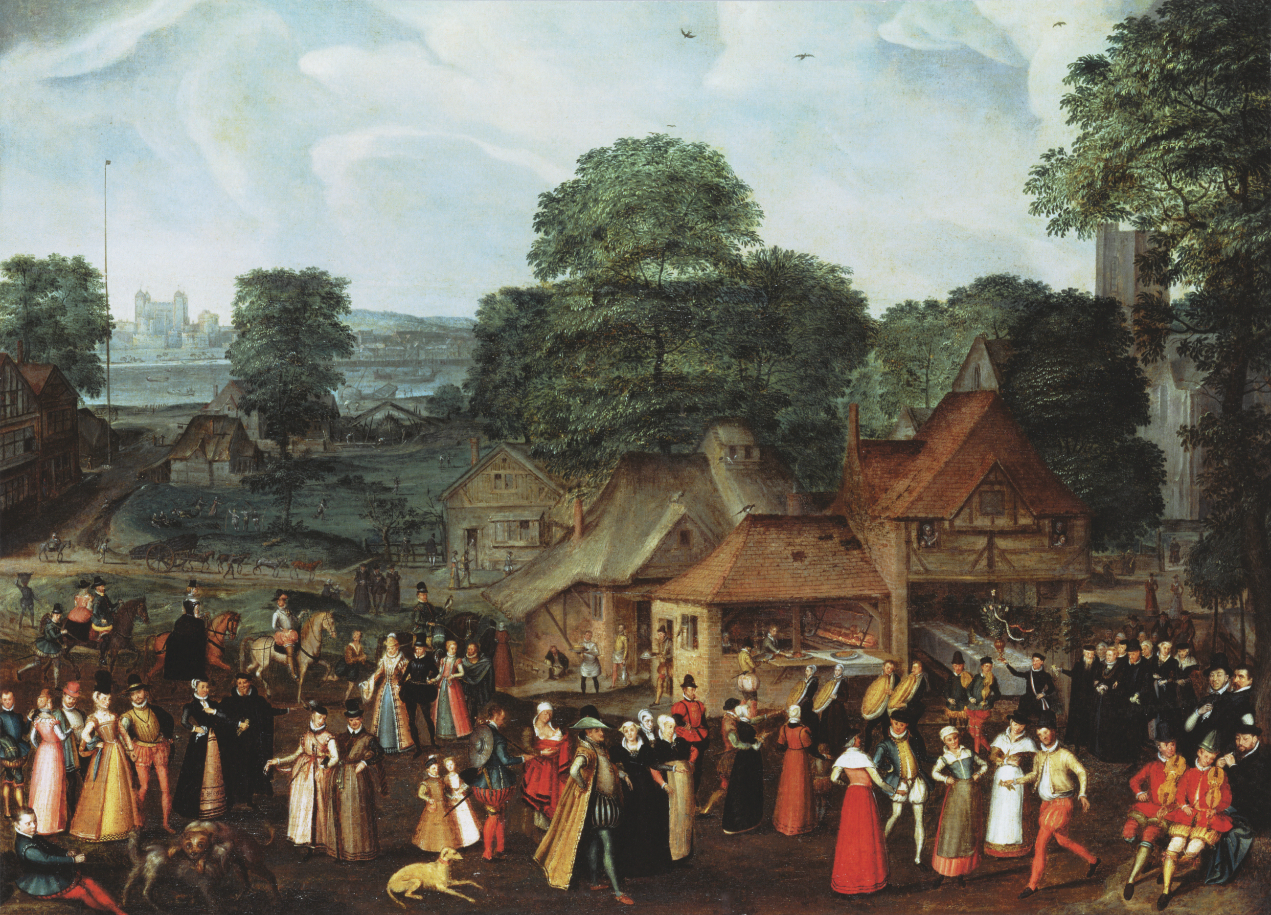 A village festival with elegantly dressed figures in procession, a river and tower beyond